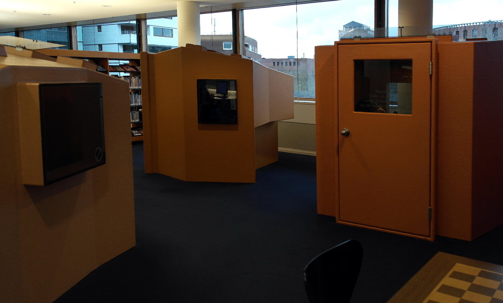 Maastricht, the Netherlands. Study cabines designed by Atelier Van Lieshout in the library section of Centre Céramique.